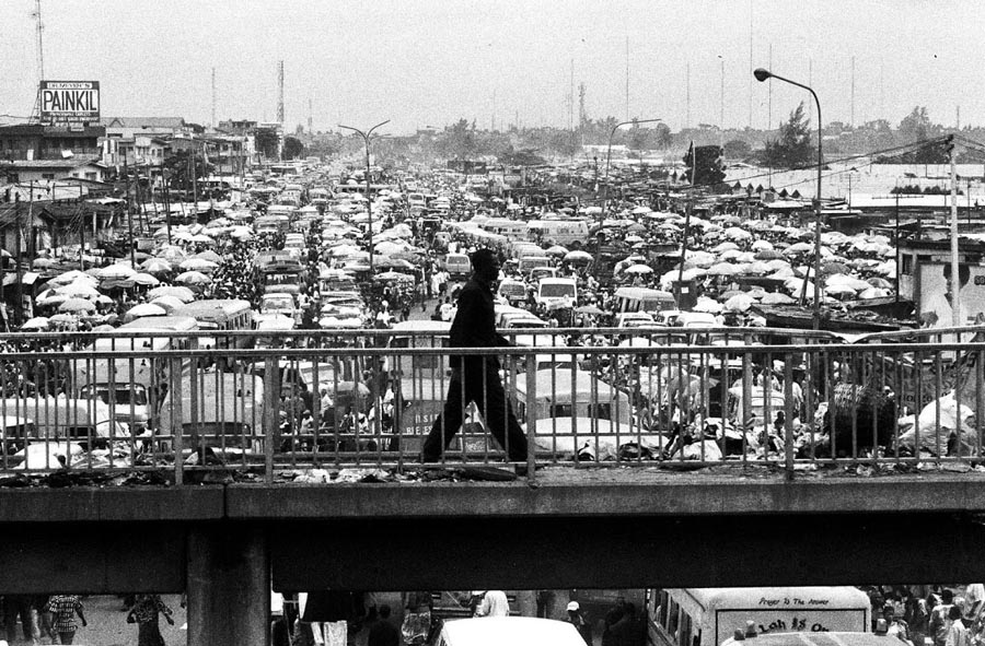 Photo series that documents the city of Lagos